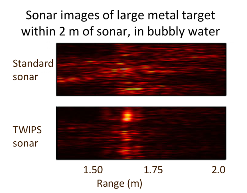 A large round metal target is within 2 metres of a sonar, trying to detect it in bubbly water. The upper panel shows the image from standard sonar: scatter from the bubbles clutters the image, hiding the true target. The lower panel shows how TWIPS (Twin Inverted Pulse Sonar) can readily find the target in the same bubbly water. From Leighton, T.G., Finfer, D.C., White, P.R., Chua, G-H. and Dix, J.K. (2010) Clutter suppression and classification using Twin Inverted Pulse Sonar (TWIPS), Proceedings of the Royal Society A, 466, 3453-3478 (